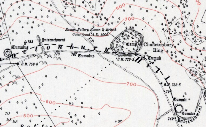 Ordnance Survey map of Chanctonbury Ring, 1934